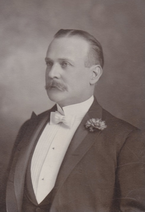 Note: the photograph is undated, but since the subject died in 1915, it must have been taken earlier than that.